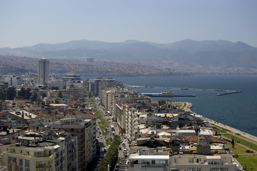 Izmir from the EGE PALACE HOTEL